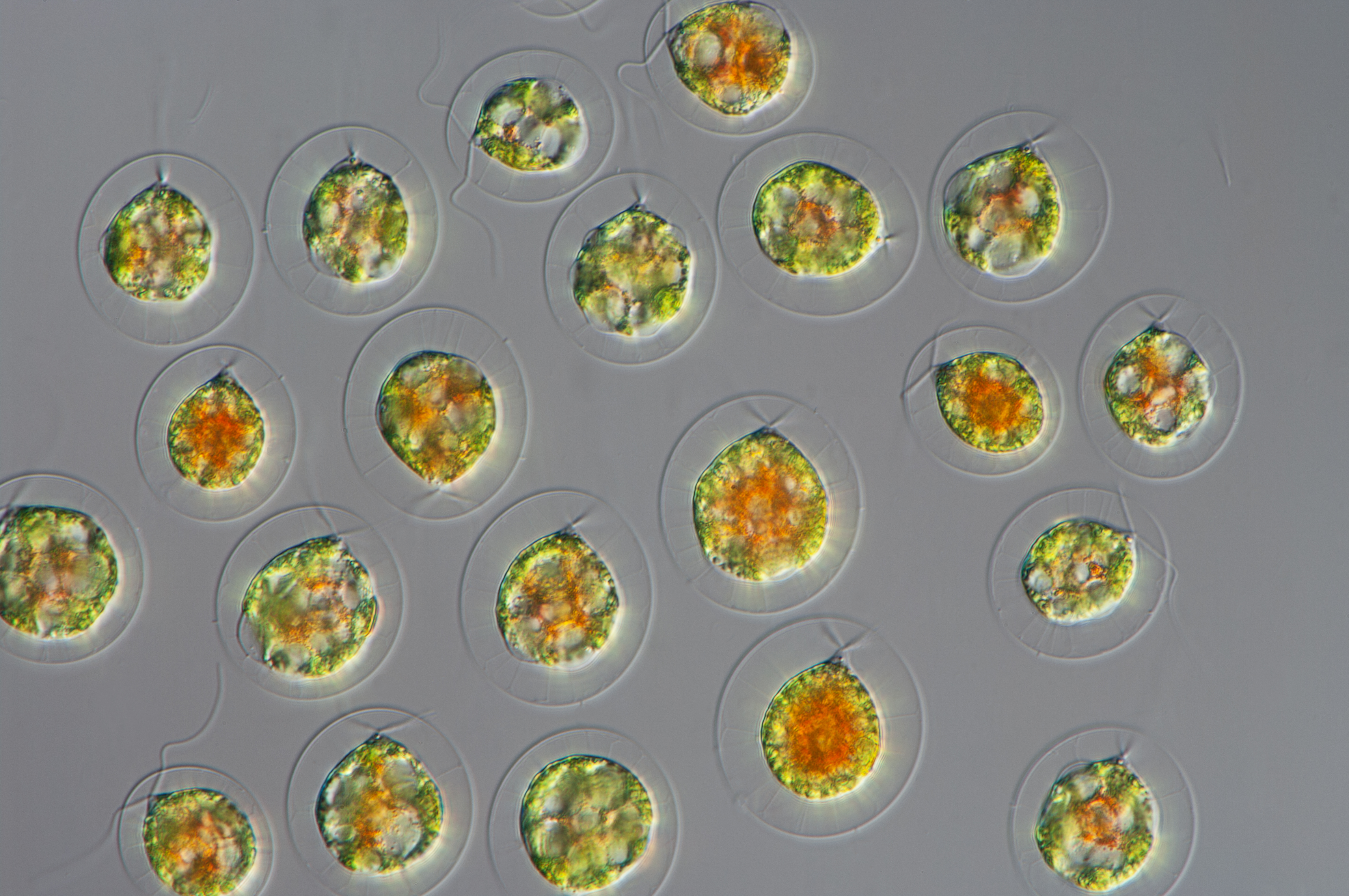 the alga Haematococcus fluvialis (every alga has two flagellae)